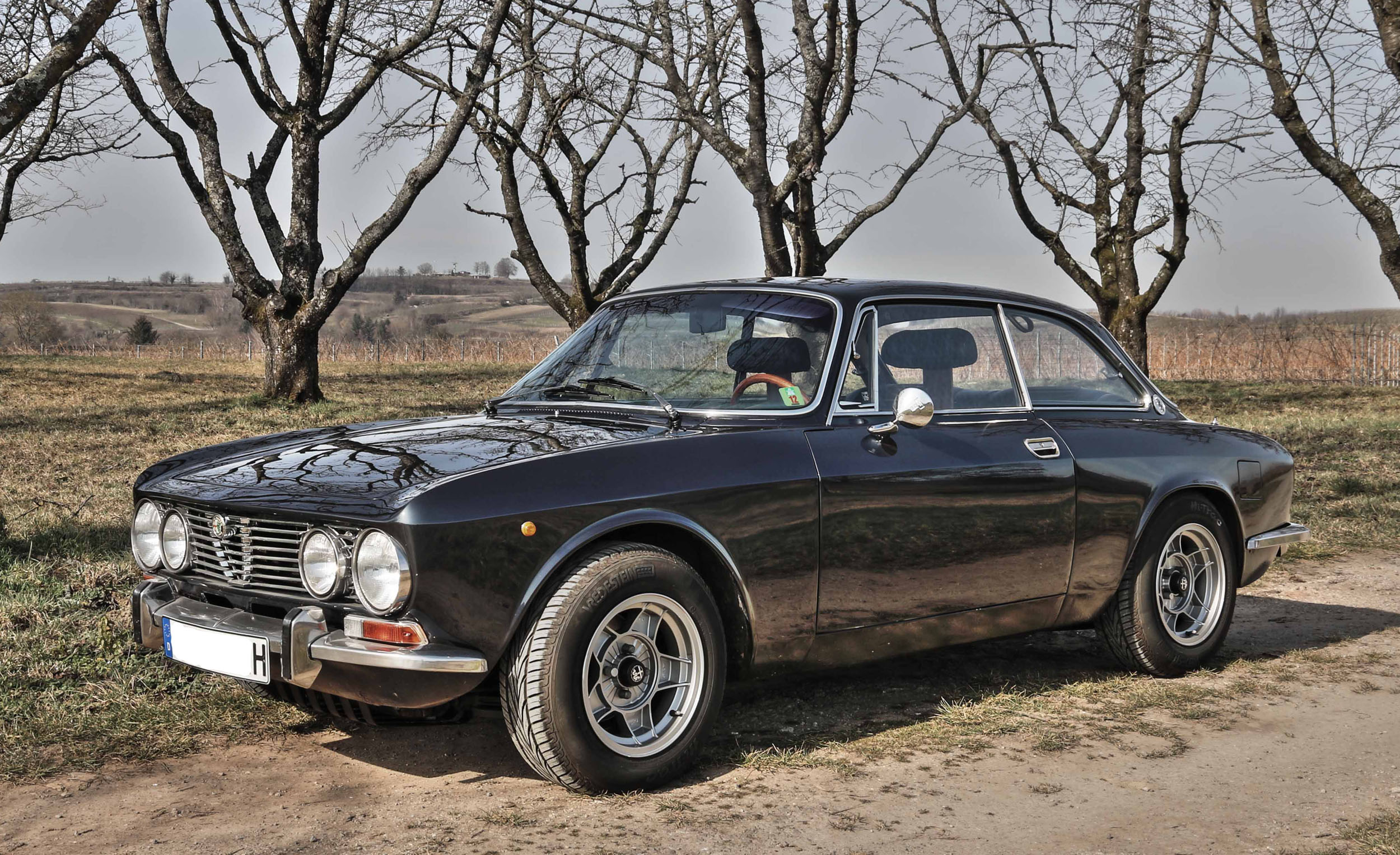 Front portion 2000 GTV